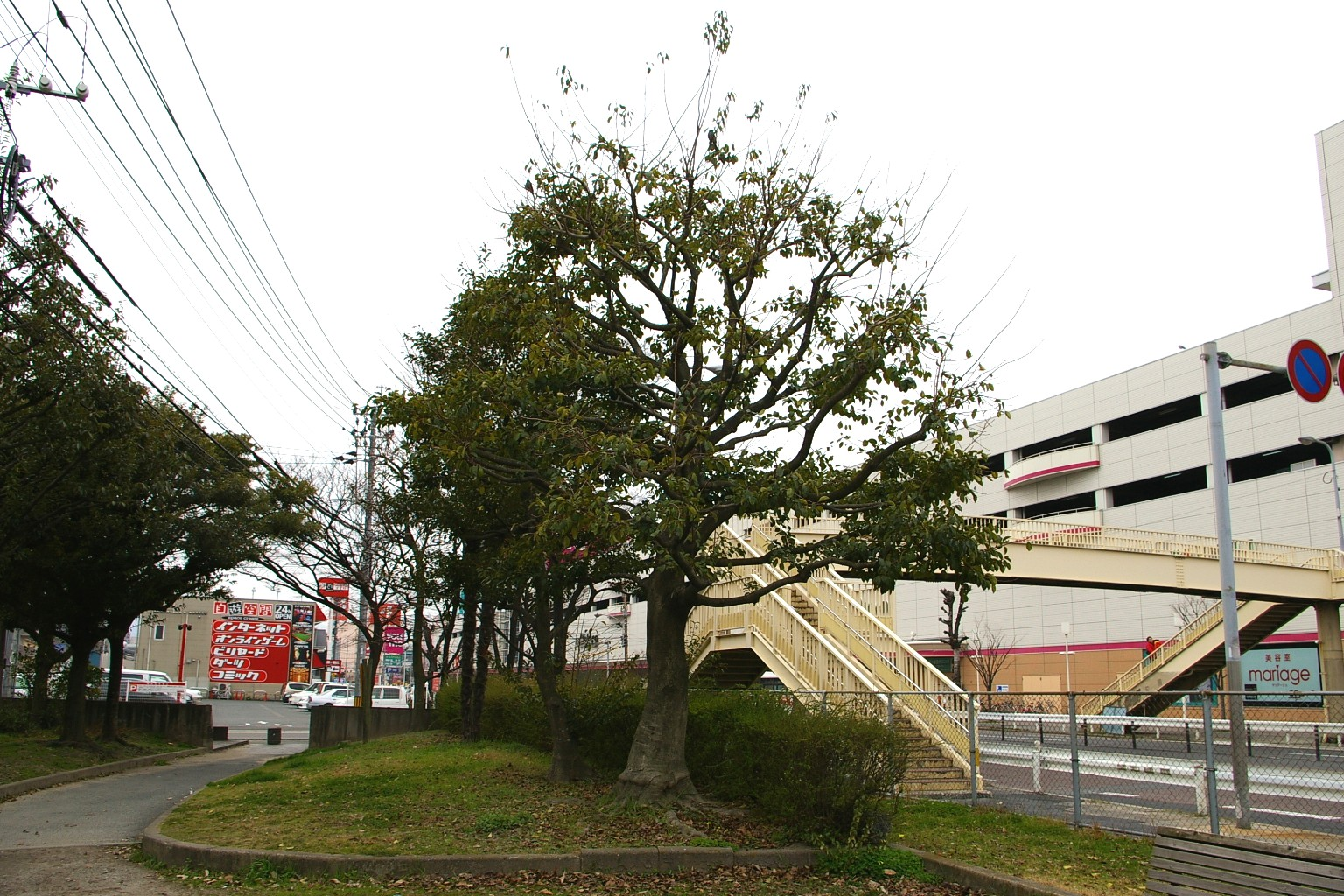 fukuoka